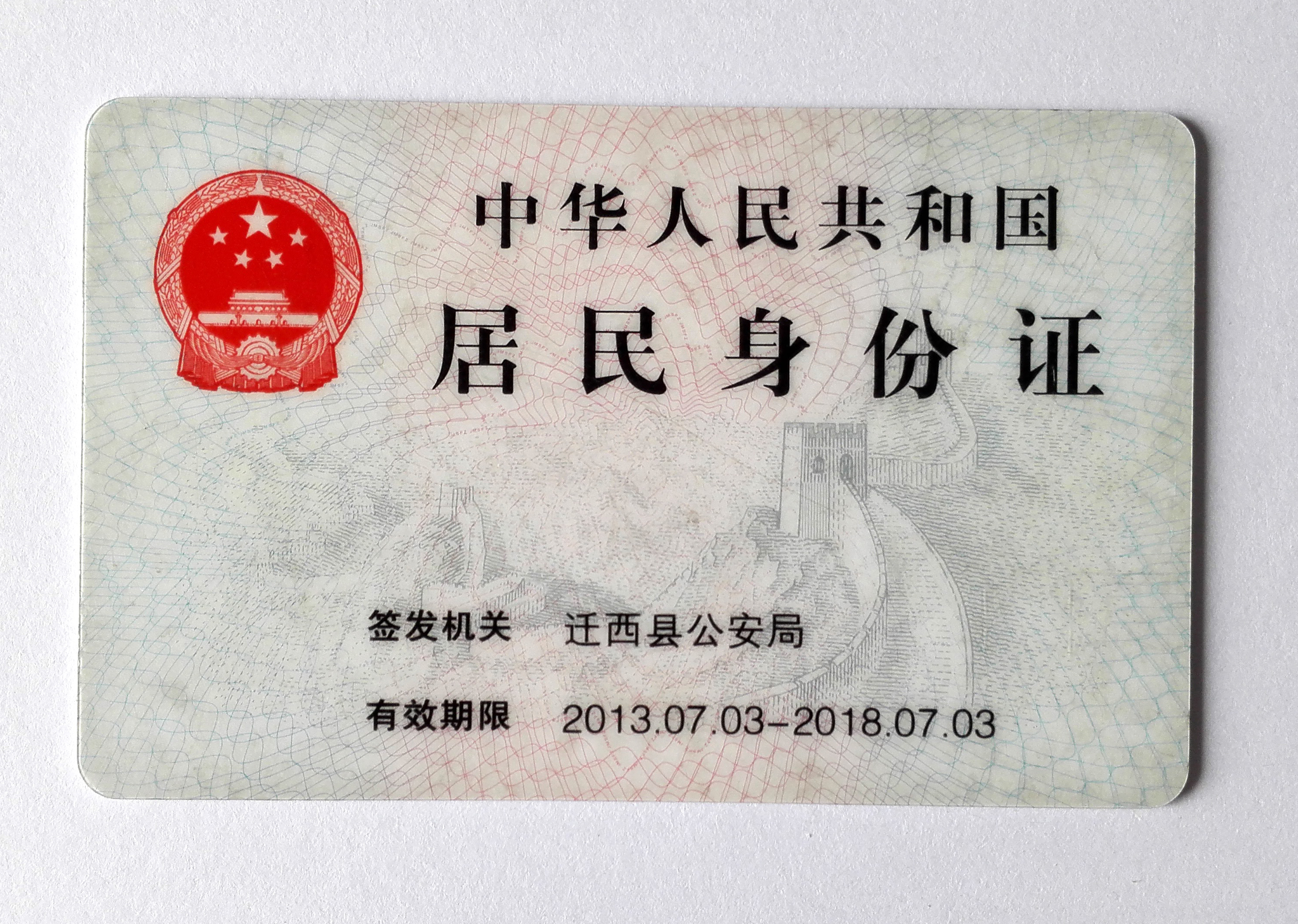 Resident Identity Card of the People's Republic of China